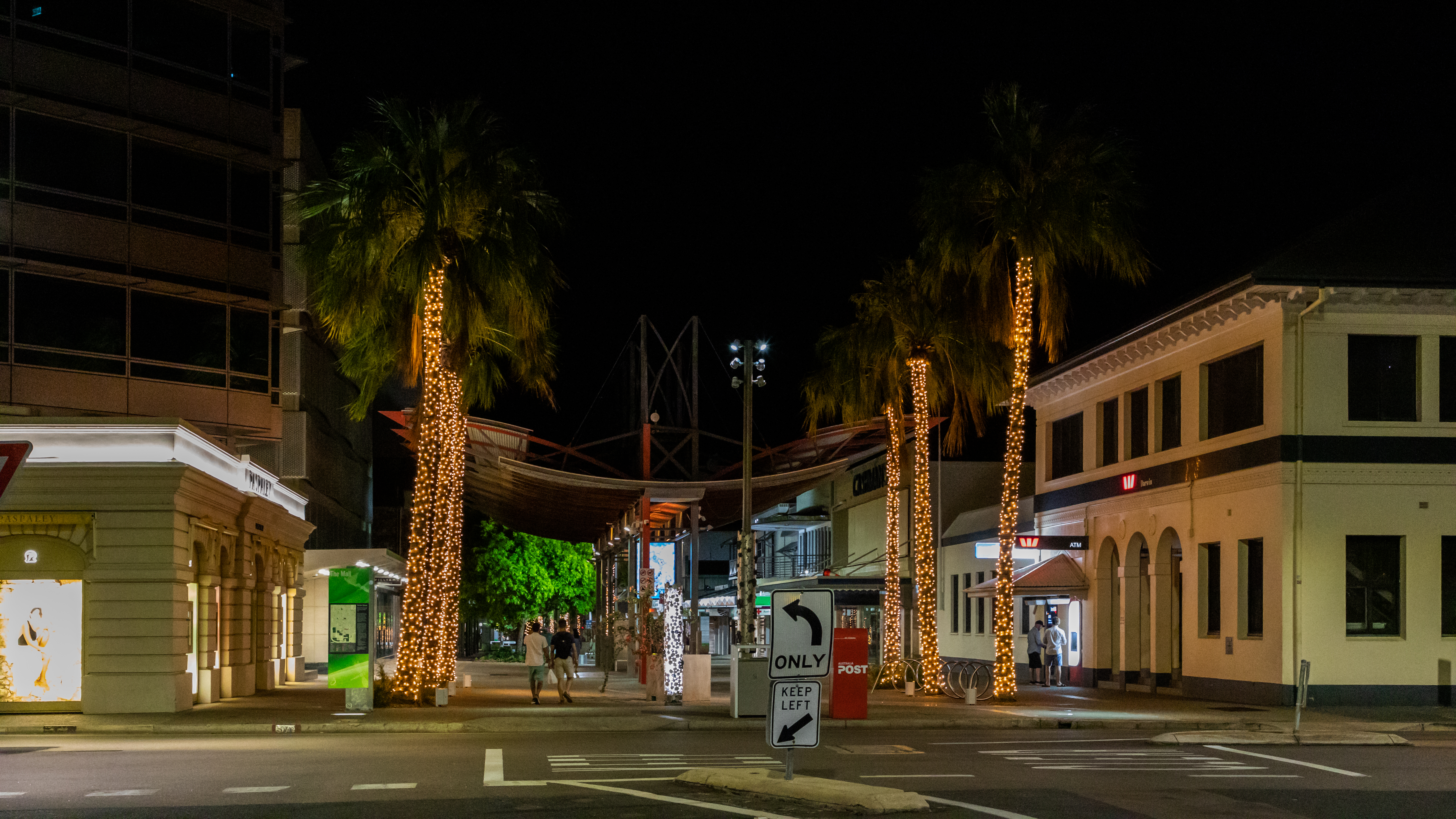 The Mall, Darwin, Northern Territory, Australia